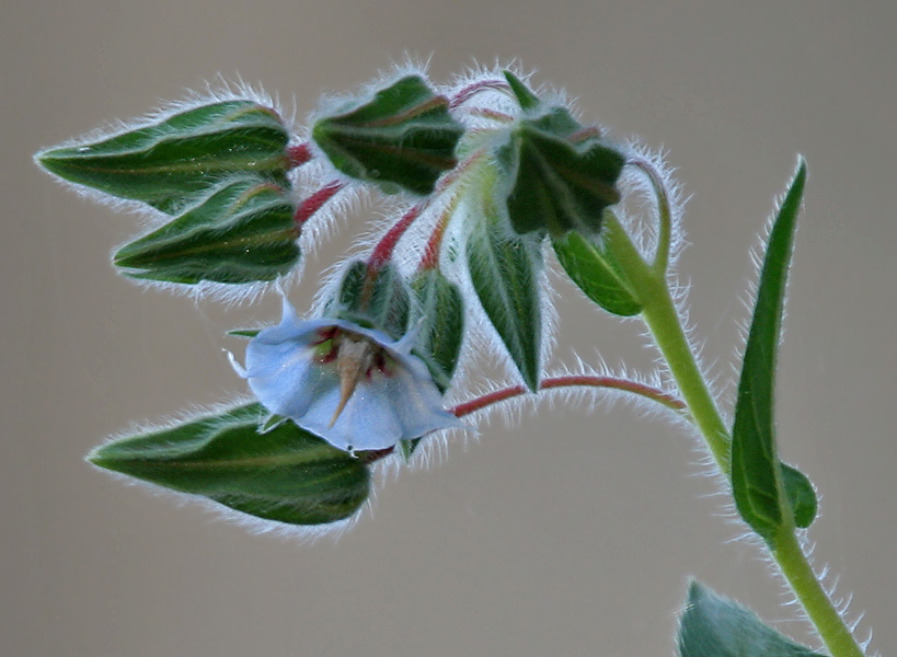 Chhota Kalpa Trichodesma indicum in Bhongir Fort, Andhra Pradesh, India.